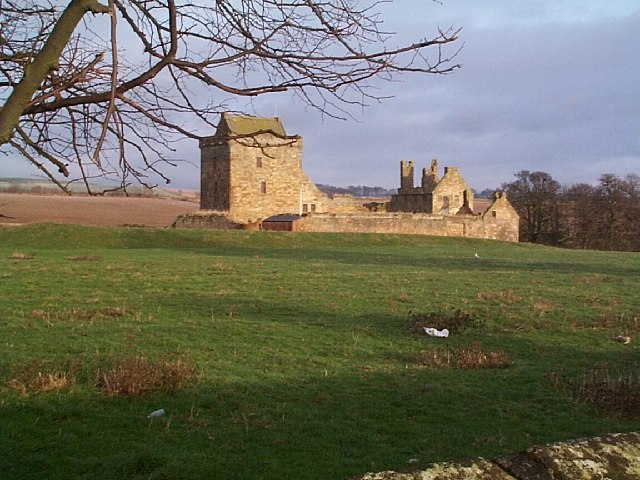 Balgonie Castle. Balgonie Castle near Glenrothes